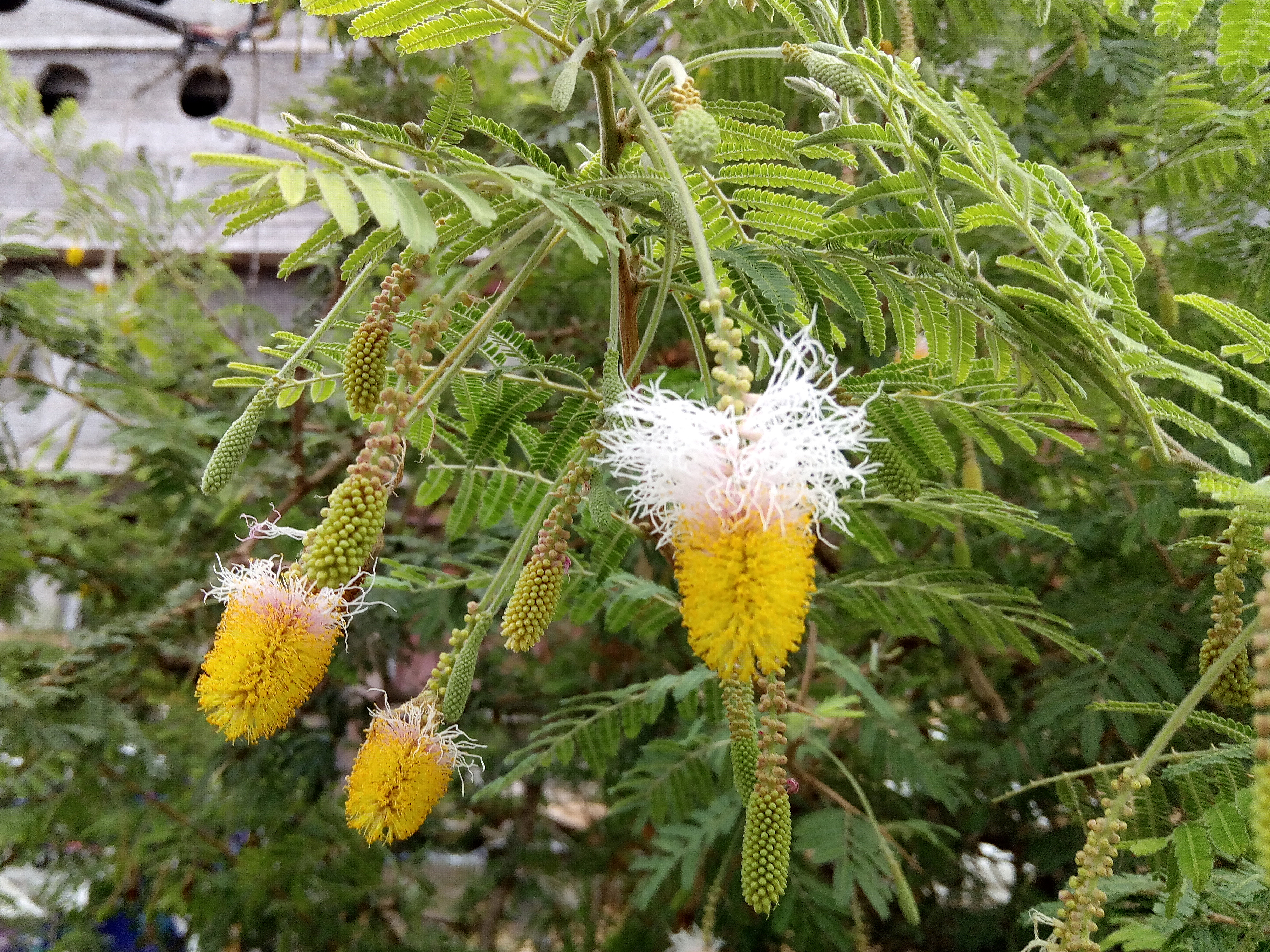 Dichrostachys cinerea in Bhopal